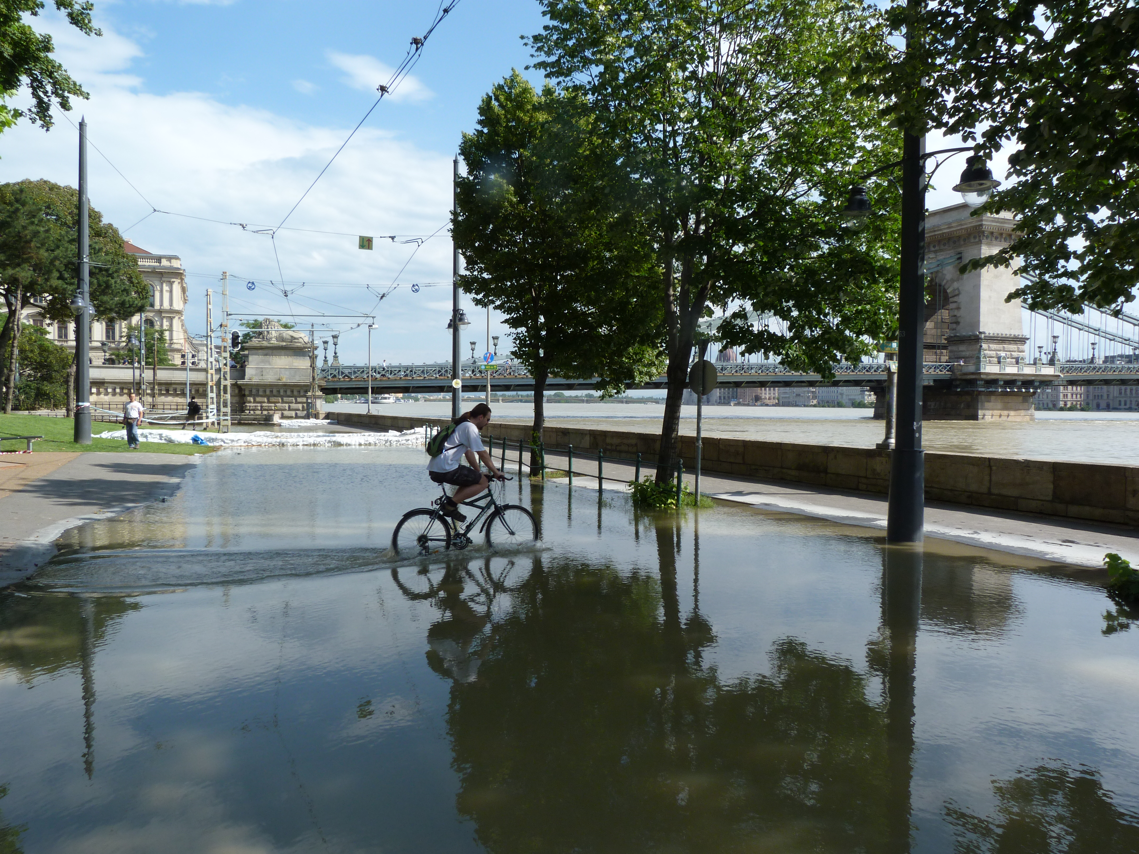 Live on the 10th of June, 2013. Budapest, the Buda side of the Danube. At the Lánchíd (Chain bridge). Duna river reached record-high levels. Water levels peaked at 890 -892 cm in Budapest on Monday, 10th of June, 2013. ©© Published under Creative Commons in the Metapolisz DVD line. All of the photos and vids in the Metapolisz DVD line are under Creative Commons and can be used even for commercial – for profit – purposes. Recommended Citation Derzsi Elekes Andor: Metapolisz DVD line A felvételek 2013 június 10 –én, hétfőn 8. 37 - től készültek Budapesten, a Duna partján. (a Döbrentei tértől a Clark Ádám térig és a Várból, a középkori kert oldaláról. A Duna tetőzik, 890-892 cm vizállással. Magyarországon 807 km töltésen van árvízvédelmi készültség. Orbán Viktor előző nap (június 9-e, vasárnap) elmondta, hogy az árvíz 7-8 nap alatt vonul le. A korábbi NEO FM rádió helyén az új Árvíz Rádió sugároz. A rádió 30 napig tudósít. Sources: Danube flood – Budapest “gets away with it” Budapestnél tetőzik a Duna Tetőzés Metropol, 2013. Június 10.